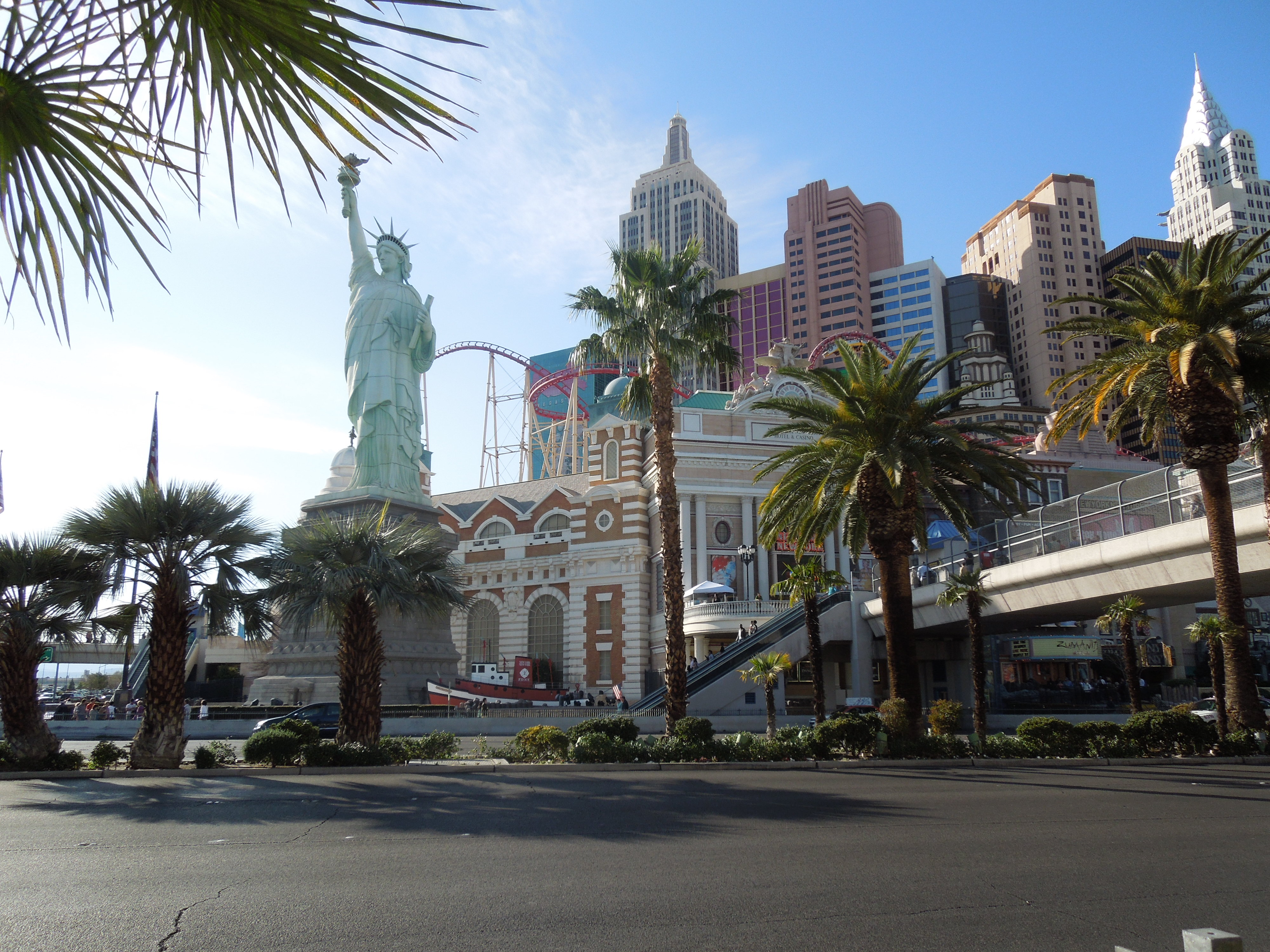 New York New York hotel and casino in Las Vegas